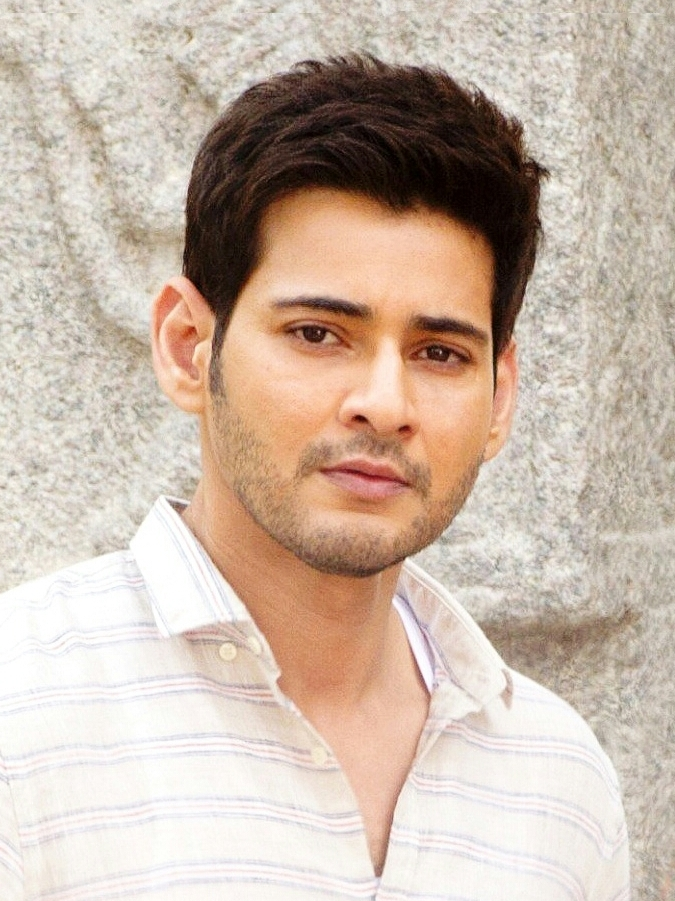 Mahesh Babu in Spyder image cropped version